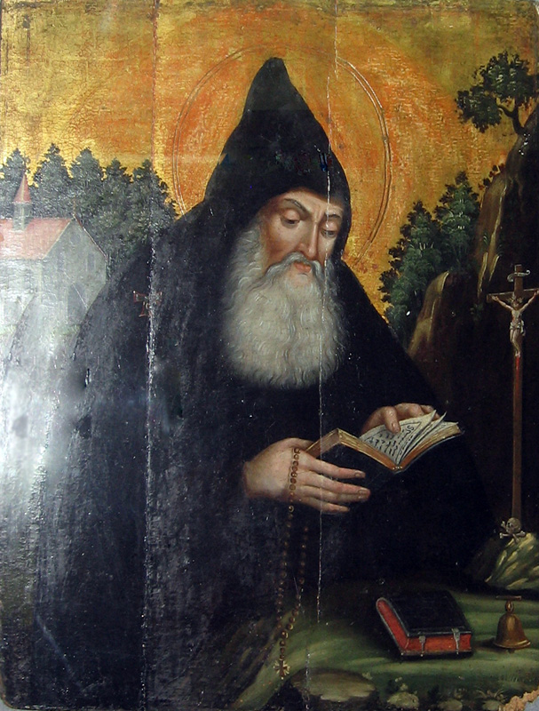 Saint Anthony the Great. Armenian icon.